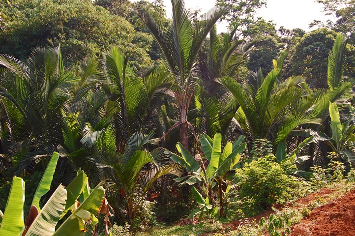 Metroxylon sagu prefers small stream valley. Bogor, West Java, Indonesia